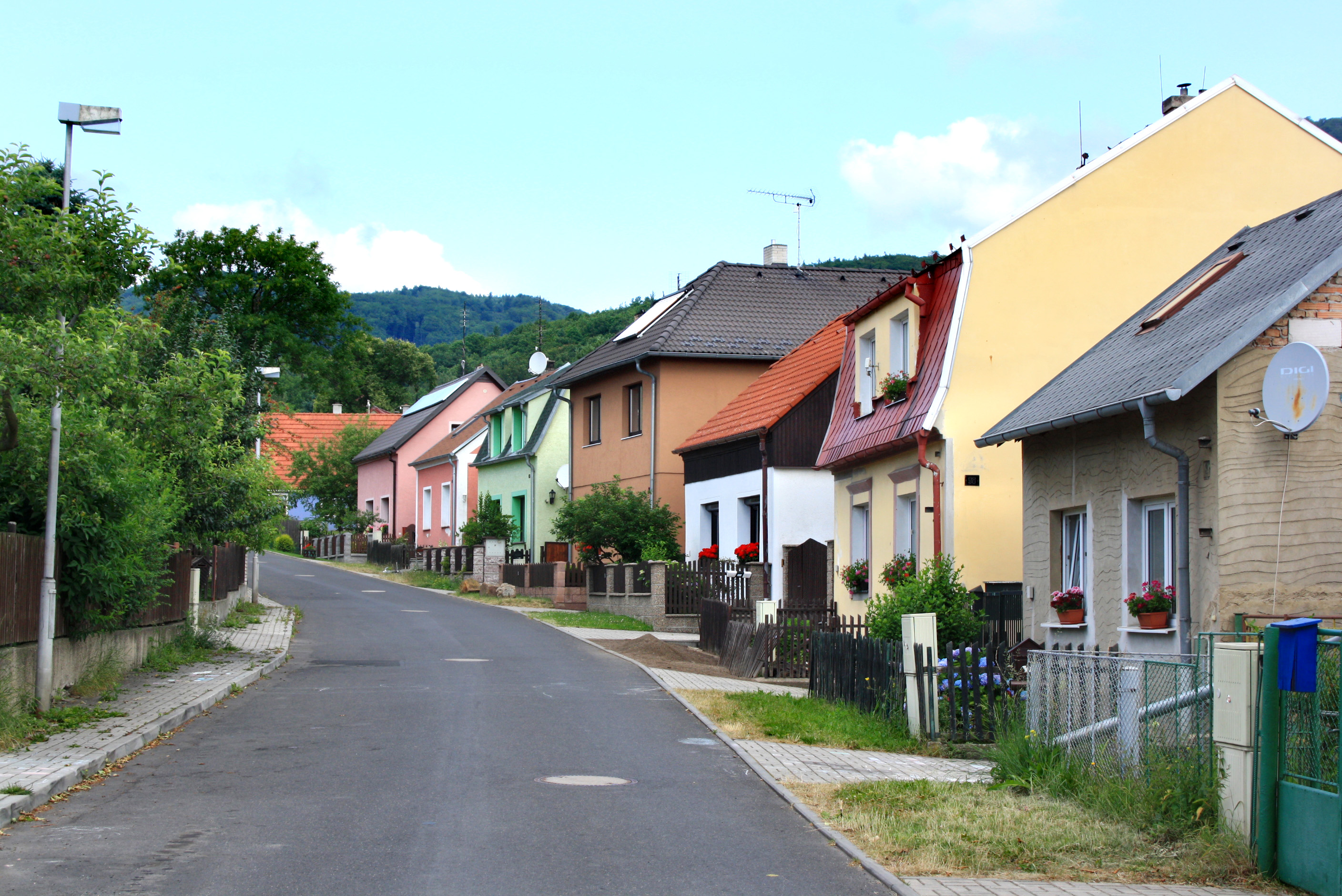 Pod Věží street in Vysoká Pec village, Czech Republic